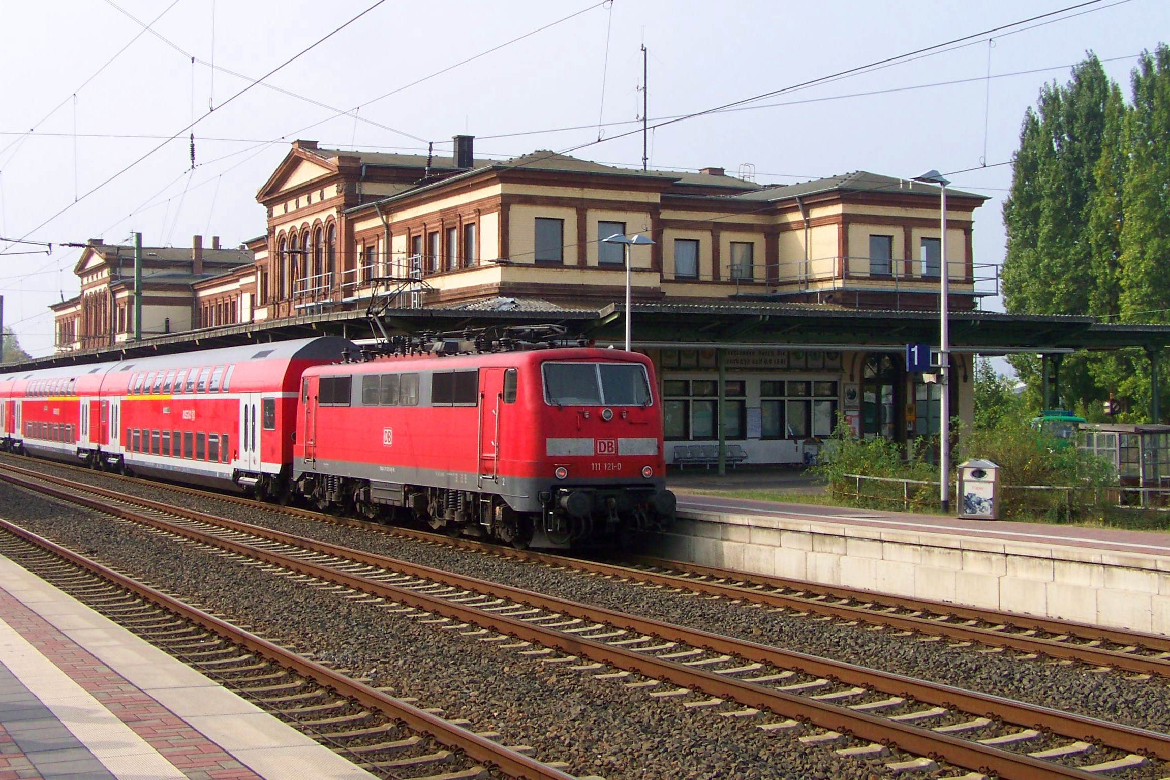 RE 1 - NRW-Express to Aachen Central Station in Düren station at platform 1